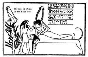 Osiris "The God Of The Resurrection", rising from his bier.[1]